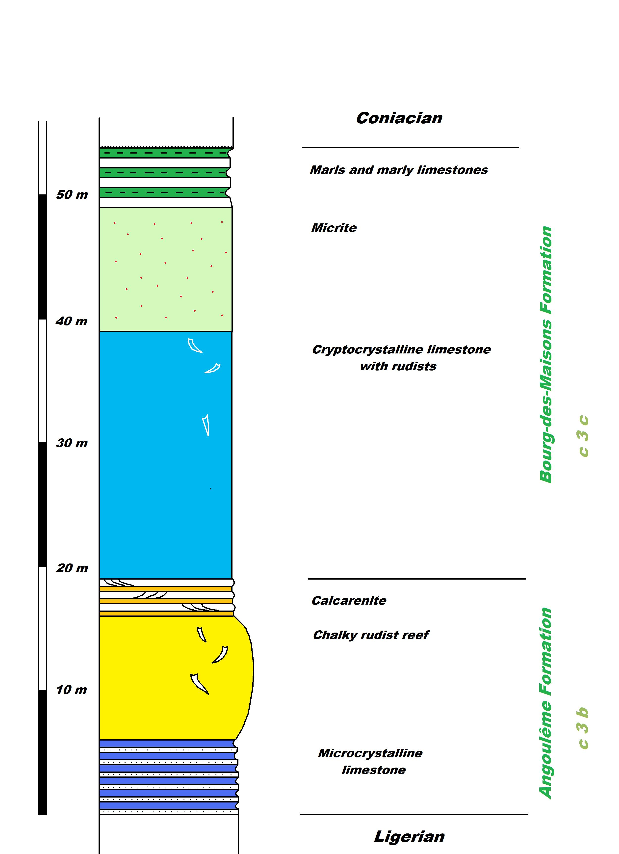 Simplified stratigraphic chart of the Angoumian, a Turonian sedimentary group in the northern Aquitaine Basin, France. Facies changes are not indicated.